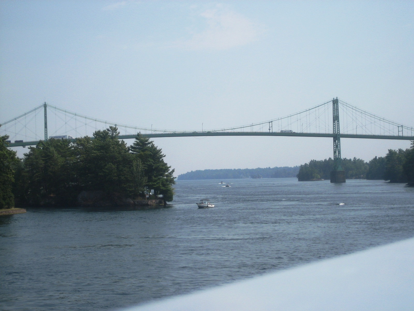 Picture of Thousand Island Bridge